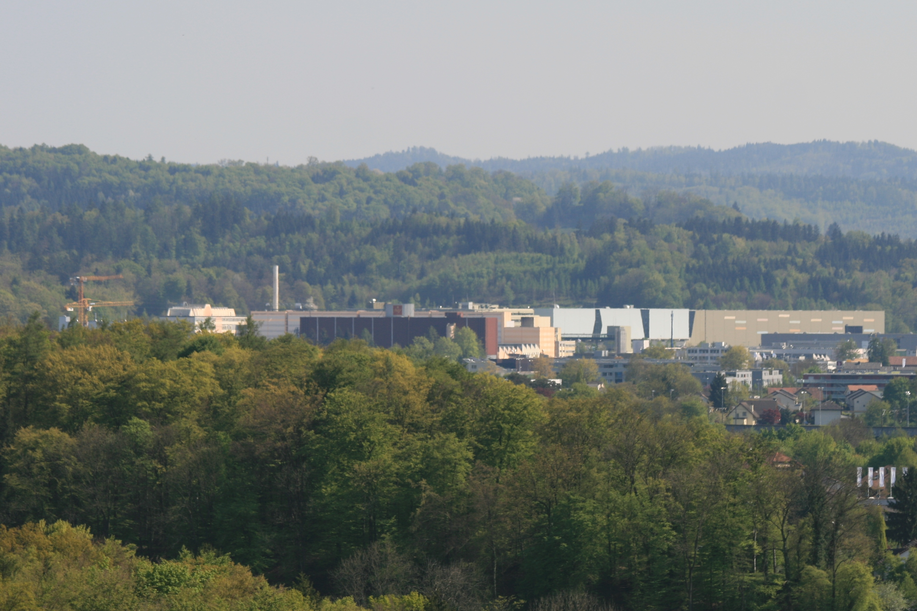 Fabrik Chocolat Frey